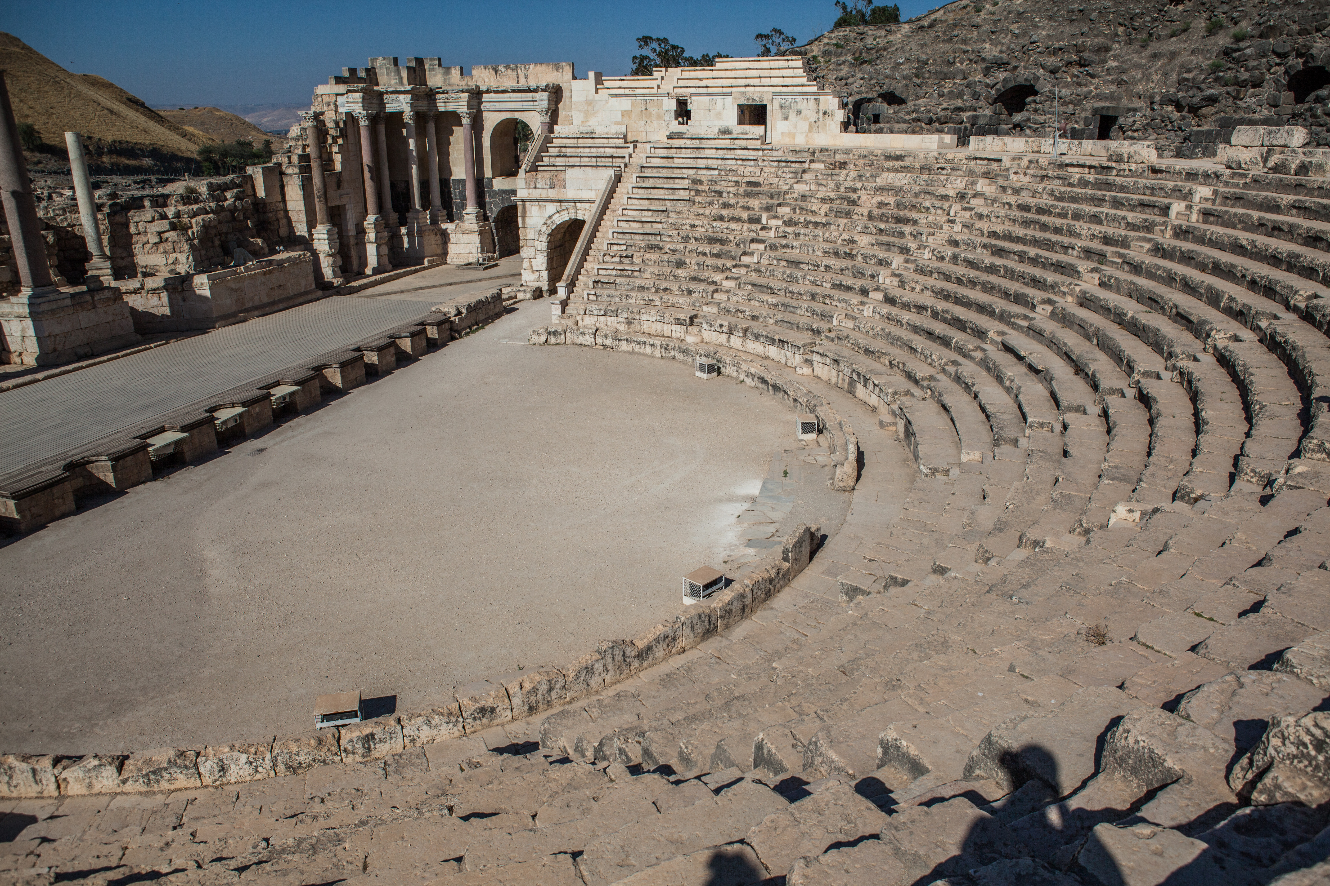 Overview of the Roman theater of Beit She'an National Park, Israel.